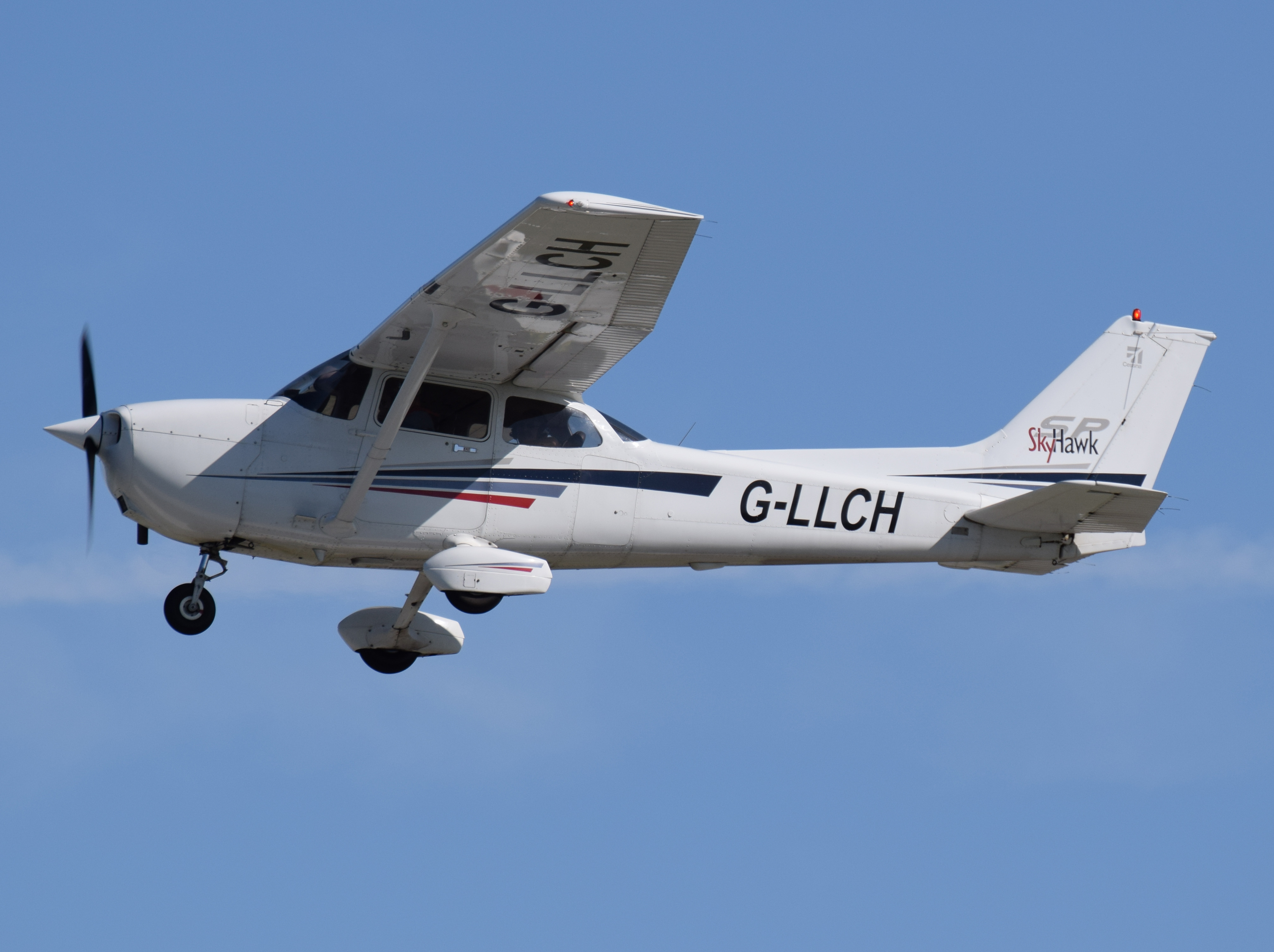 Cessna 172S Skyhawk (also called the Cessna SP), registration G-LLCH, departs Bristol Airport, Bristol, England.